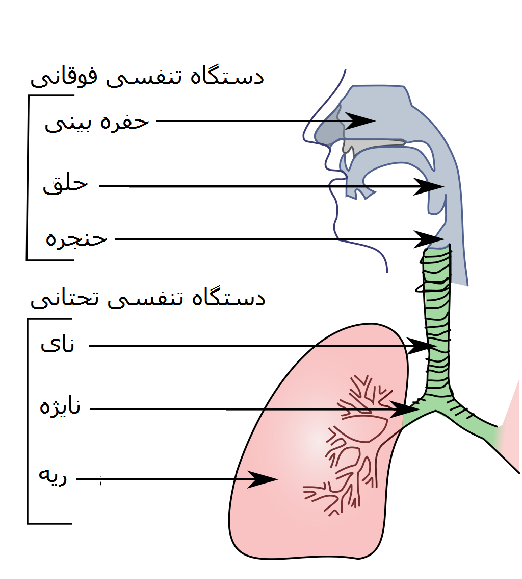 Conducting passages of the human respiratory system